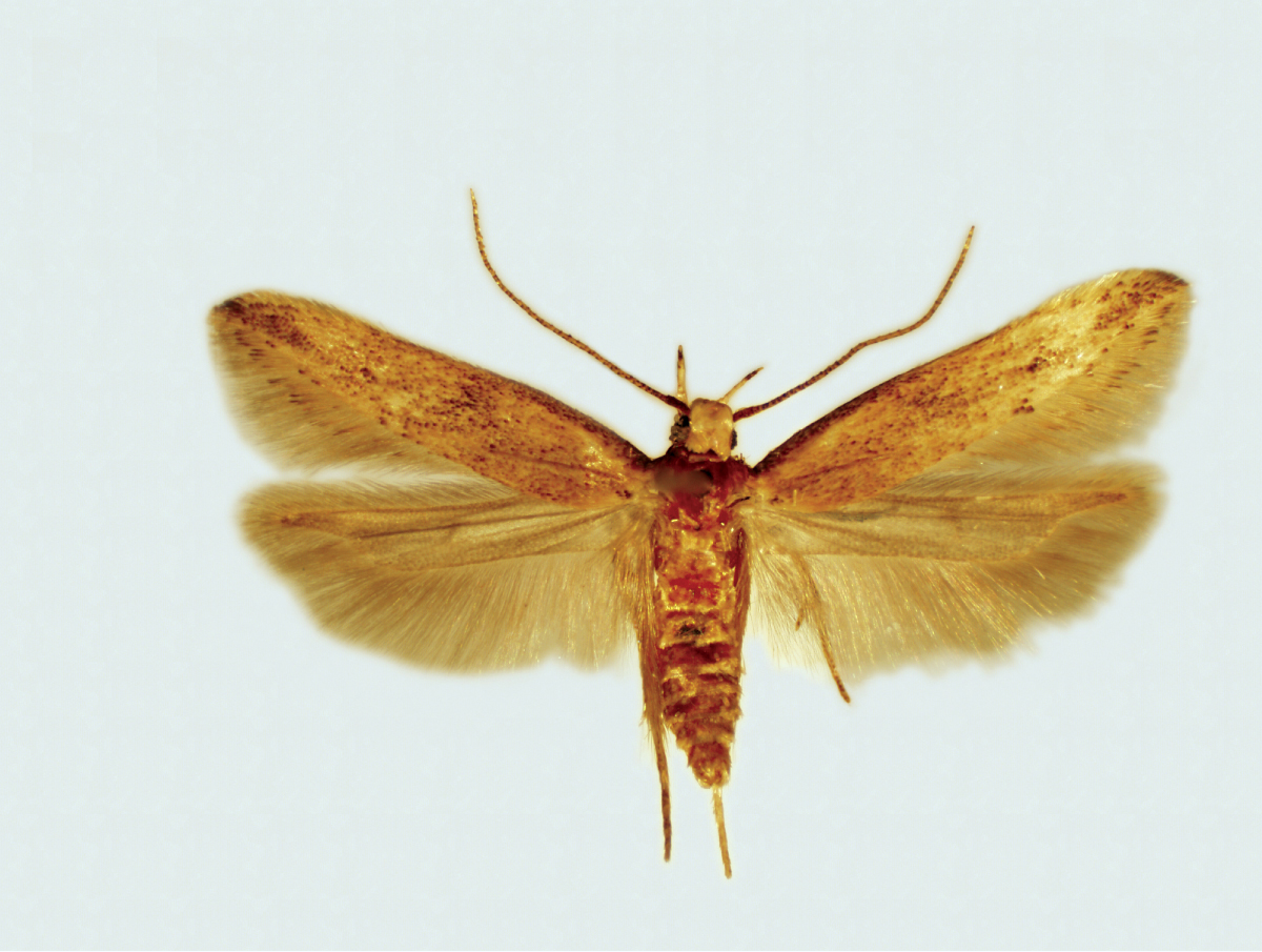 Angoumois grain moth, Sitotroga cerealella. This insect is a pest in stored grains.